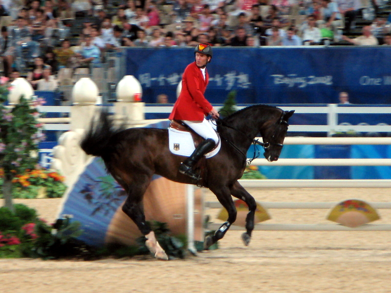 2008 Olympic Games equestrian in Sha Tin; riding Westfalen "All Inclusive"